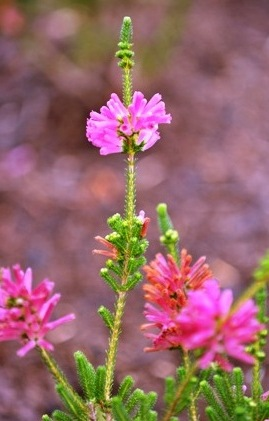 Erica verticillata. Endangered Erica of Cape Town.